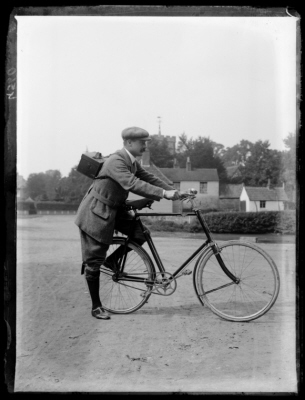 Horace Nicholls setting off on a photographic trip by bicycle, c.1903